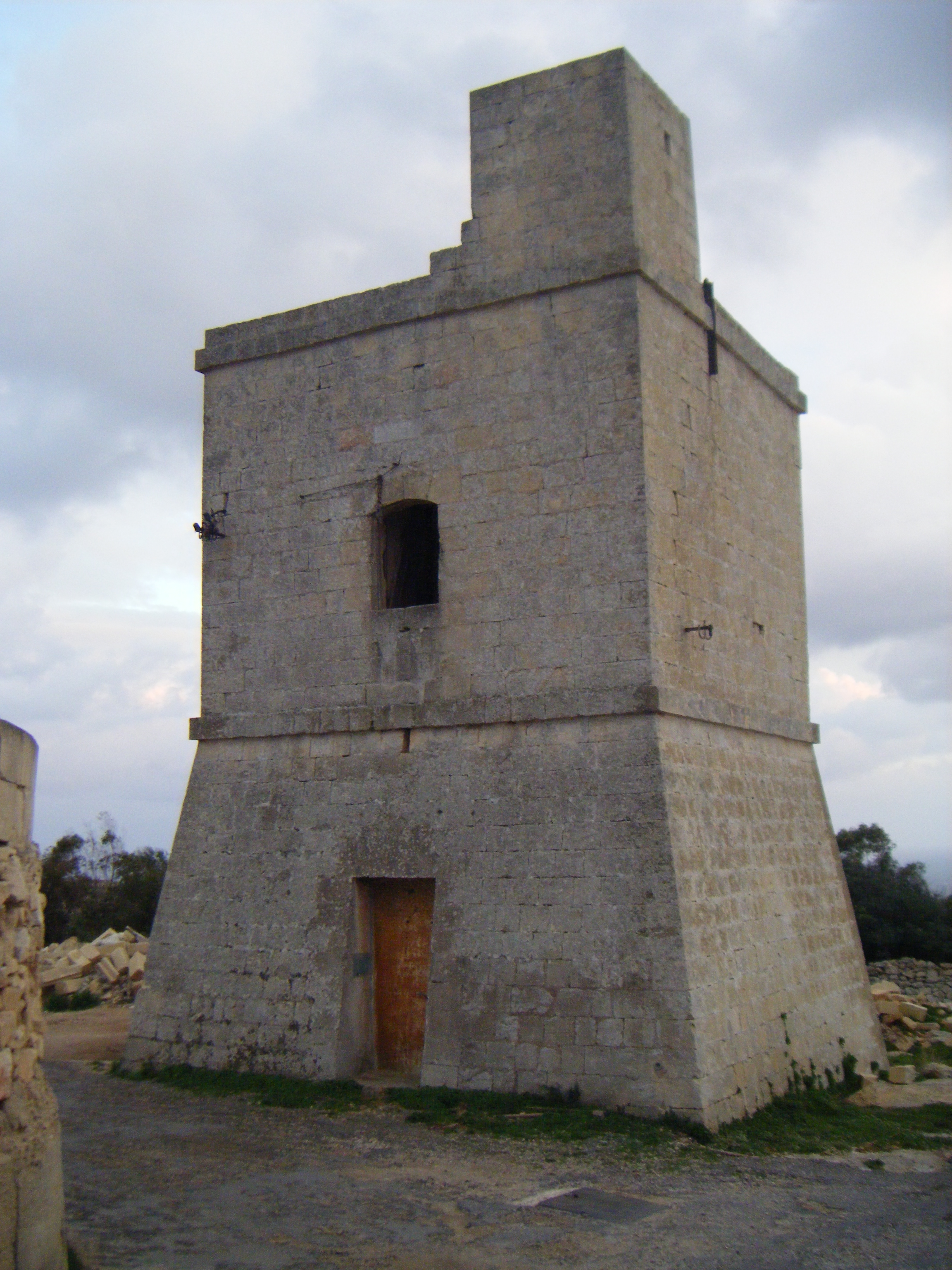 View of Wardija watch tower, Zurrieq Malta